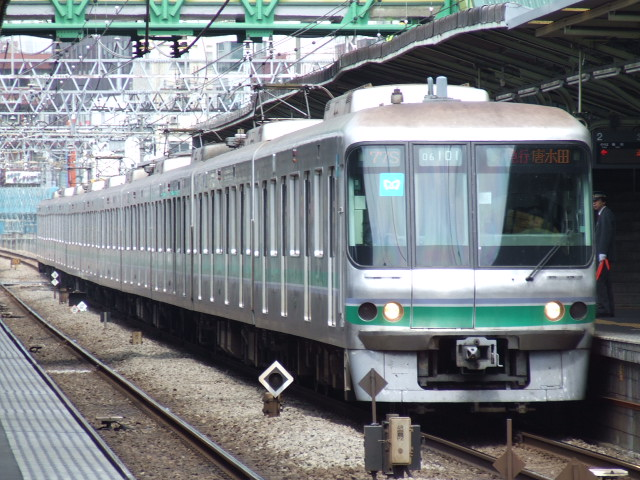 Tokyo Metro 06 series EMU set 01 approaching Mukōgaoka-Yūen Station on the Odakyū Odawara Line